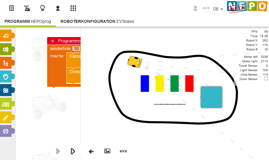 Open Roberta 2D simulation of a wheel driven robot